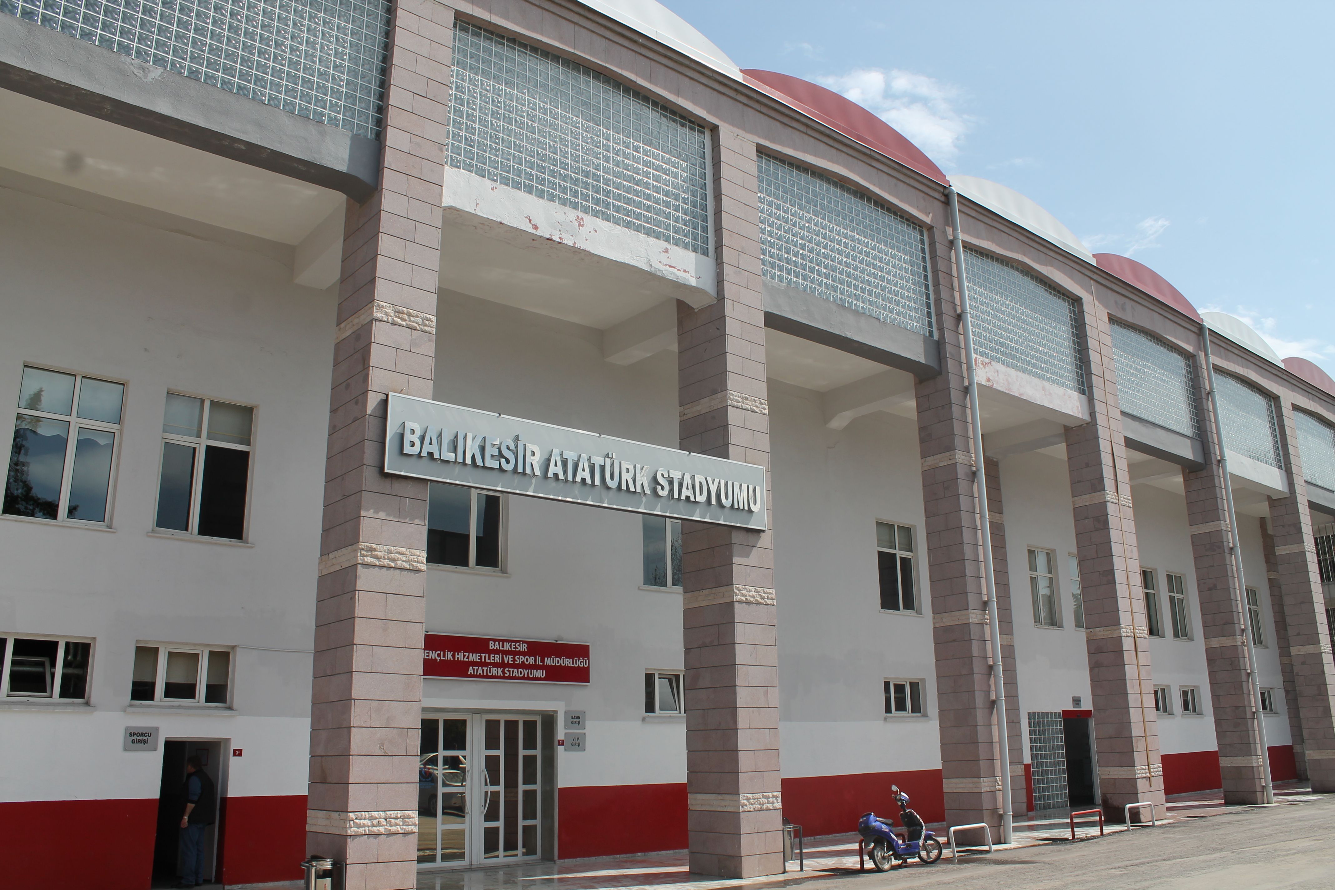 Balıkesir Atatürk Stadium